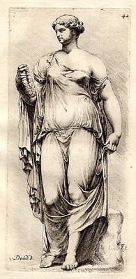 Female roman sculpture, seen from the front.